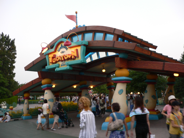 Toontown (Tokyo Disneyland Theme Land)